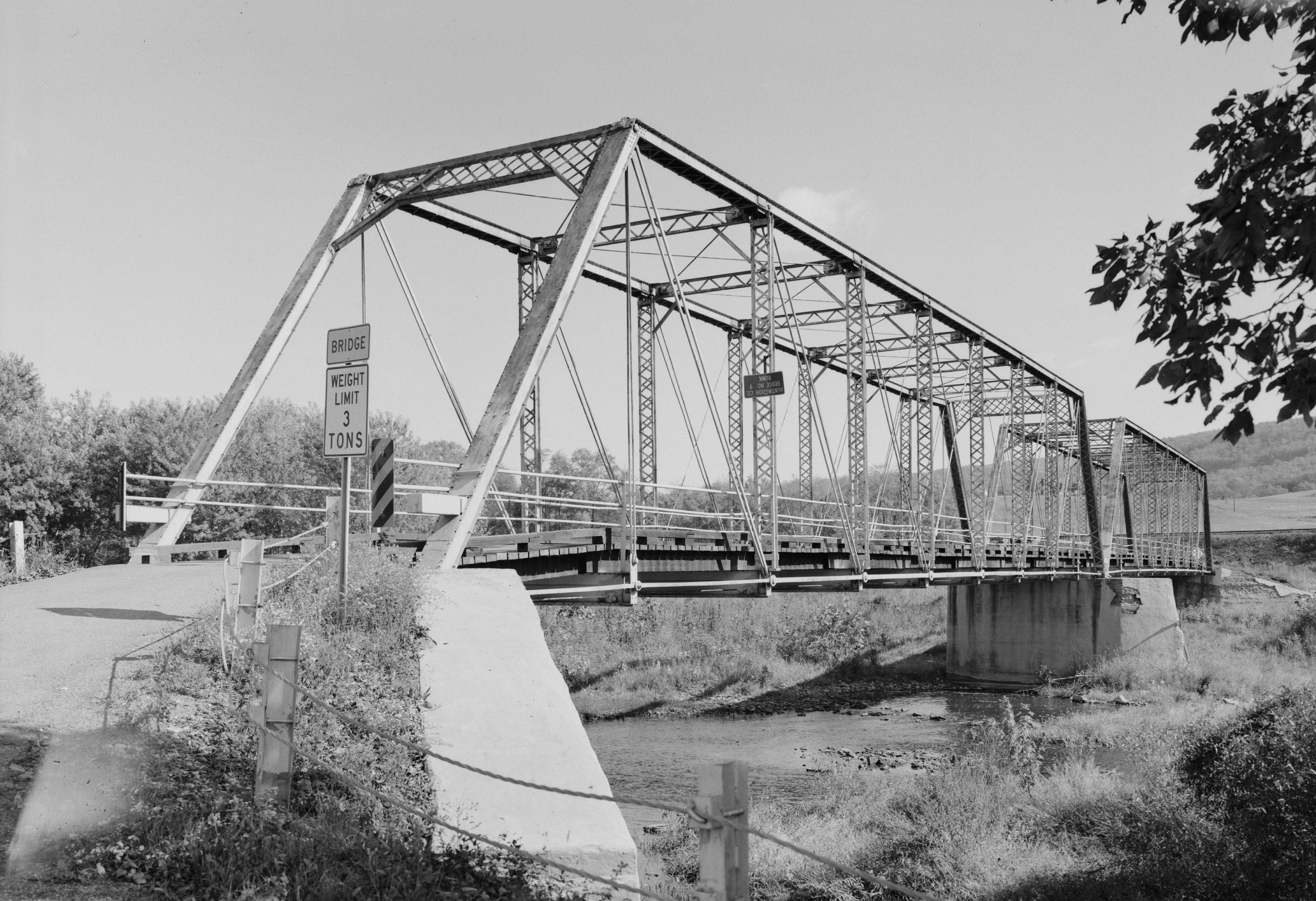 Front of the Runk Bridge, which spans Aughwick Creek south of Shirleysburg in Shirley Township, Huntingdon County, Pennsylvania, United States. Built in 1889, this Pratt through truss bridge is listed on the National Register of Historic Places.